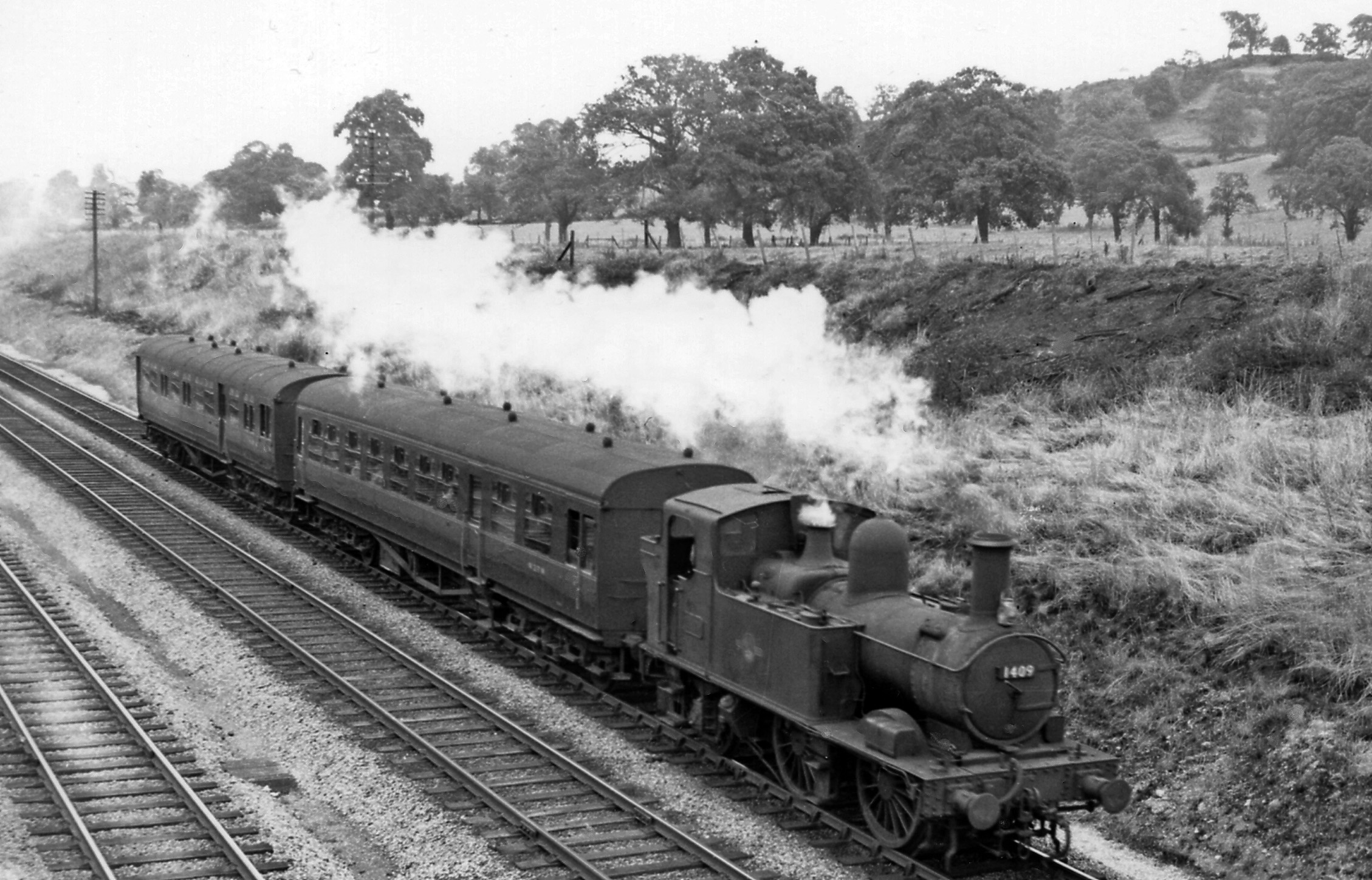 Gloucester - Chalford auto-train near Haresfield. The 0-4-2T No. 1409 (built 10/32 as 4809, renumbered 11/46, withdrawn 10/63)will head the train up the Golden Valley to Chalford, then return pushing it, with the Driver seated in what is here the back. This service ran about a dozen times each weekday, four times on Sundays (p.m.), calling at all the many Halts - but not at Haresfield, which was only on the parallel Midland line: it ceased from 2/11/64.